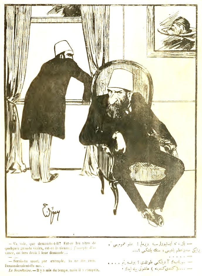 Cartoon of the Ottoman Sultan Abdulhamid II talking with his secretary soon before his ouster from the throne (1909)